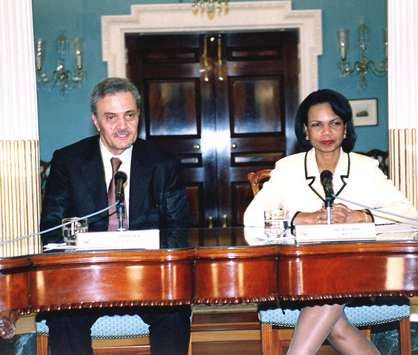 Secretary Rice with His Royal Highness Prince Saud Al Faisal, Minister of Foreign Affairs of the Kingdom of Saudi Arabia after their Bilateral, working lunch, and plenary session.